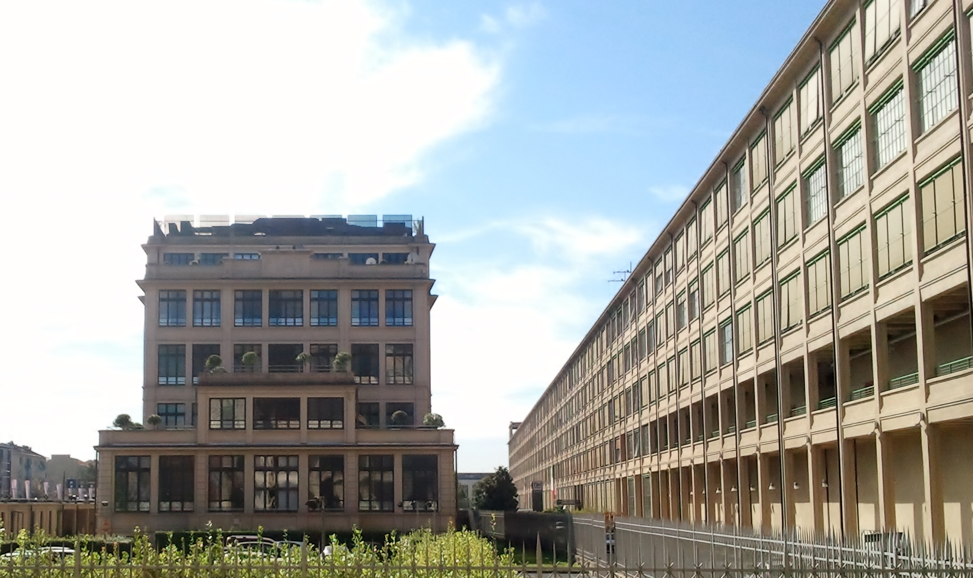 Lingotto. Torino. Italy